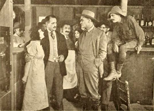 Still from the American film Girl from Nowhere (1919) with Cleo Madison and Wilfred Lucas, page 750 of the July 19, 1919 Motion Picture News.